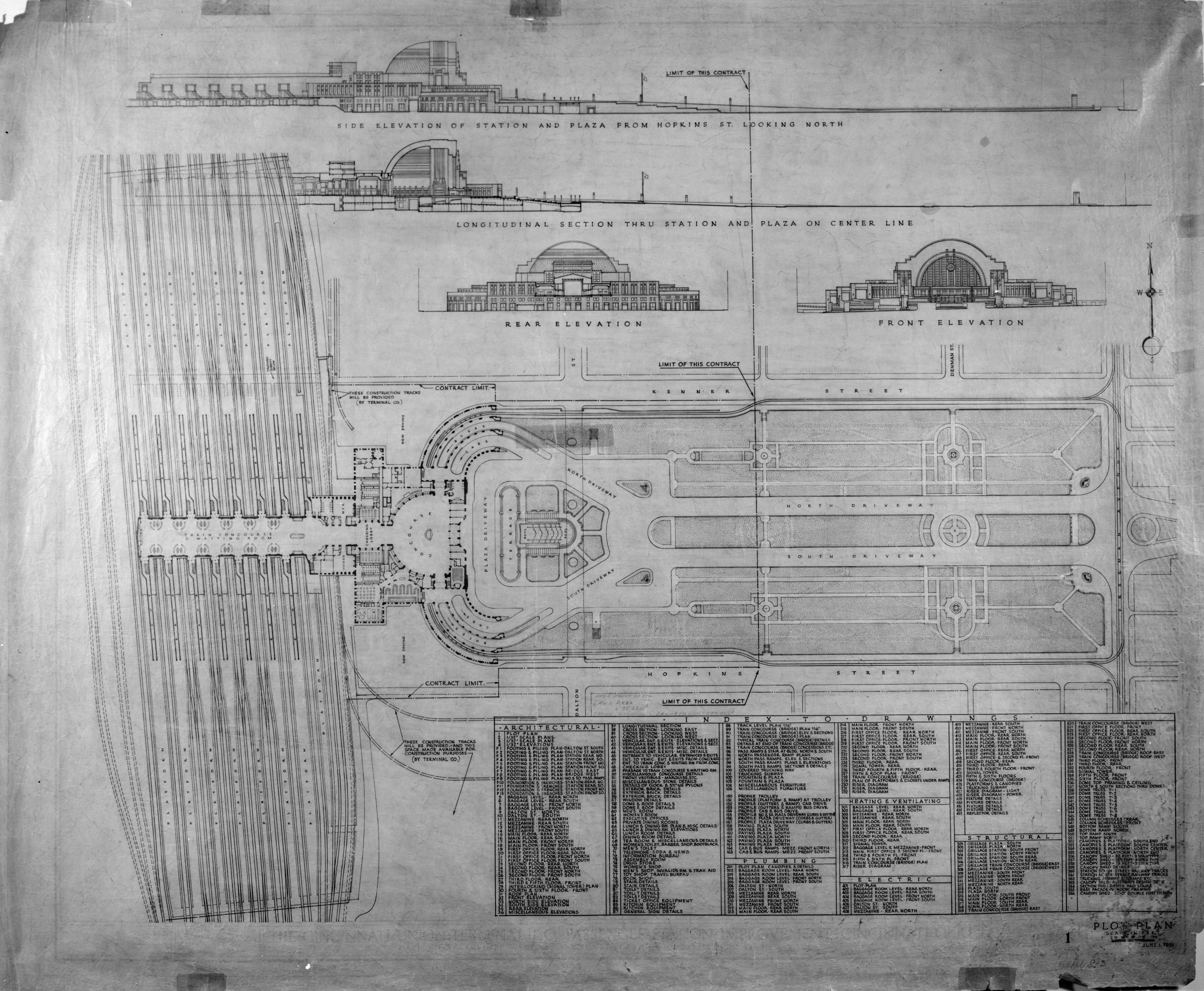 Cropped border jpg copy of File:Photocopy of original architect's drawings PLOT PLAN, JUNE 1, 1931 - Cincinnati Union Terminal, 1301 Western Avenue, Cincinnati, Hamilton County, OH HABS OHIO,31-CINT,29-39.tif.